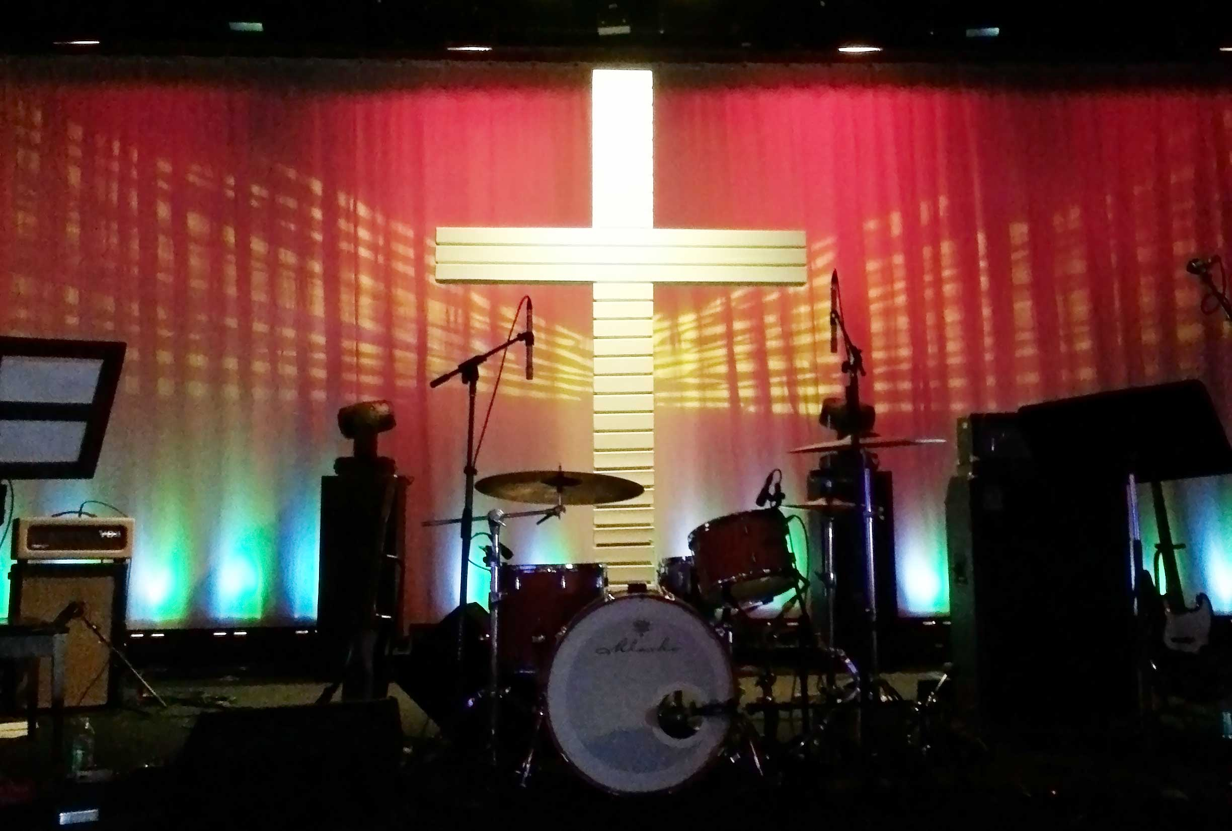 The worship band soundstage at Mars Hill Church's Ballard location